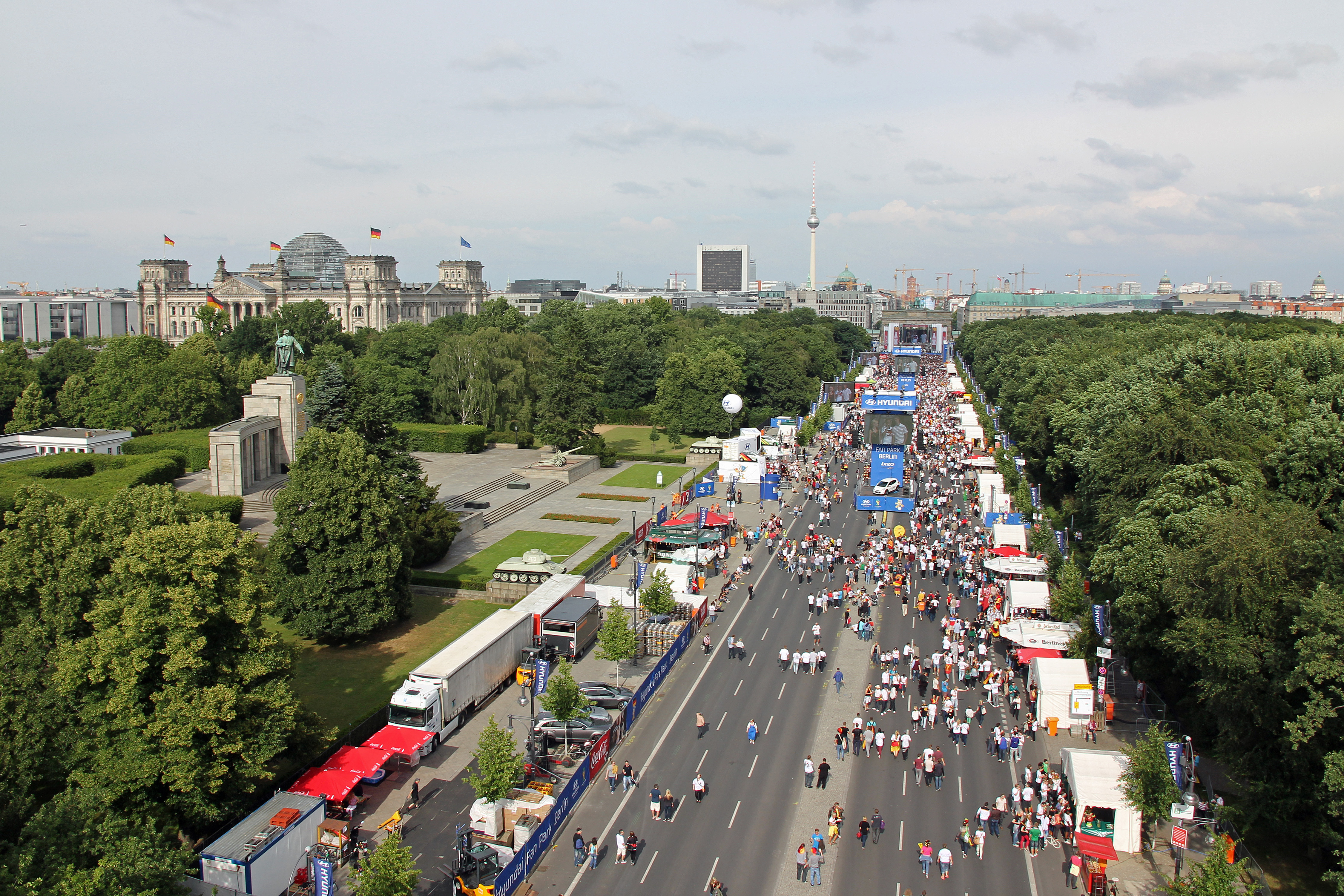 FIFA Fan Fest in Berlin